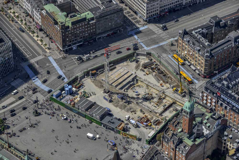 Air photo of the City Circle Line being built, part of the Copenhagen Metro. I got the following permission to use these images from kjeld madsen on 2014-10-07: Dragør Luftfoto ApS frigiver hermed billederne i galleriet under licensen Creative Commons Attribution ShareAlike 3.0 license.